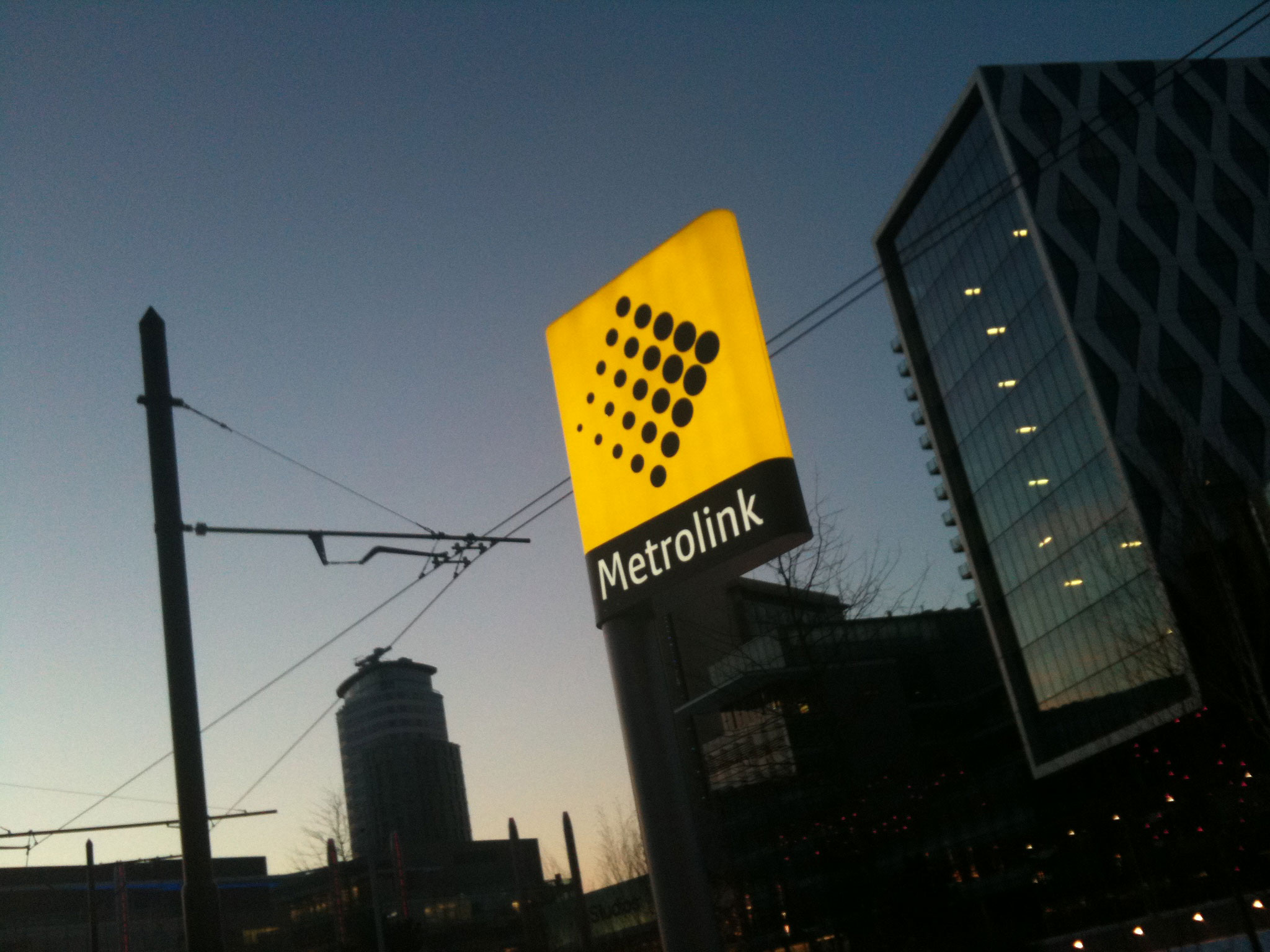 Metrolink sign at MediaCityUK Metrolink station in Greater Manchester, UK